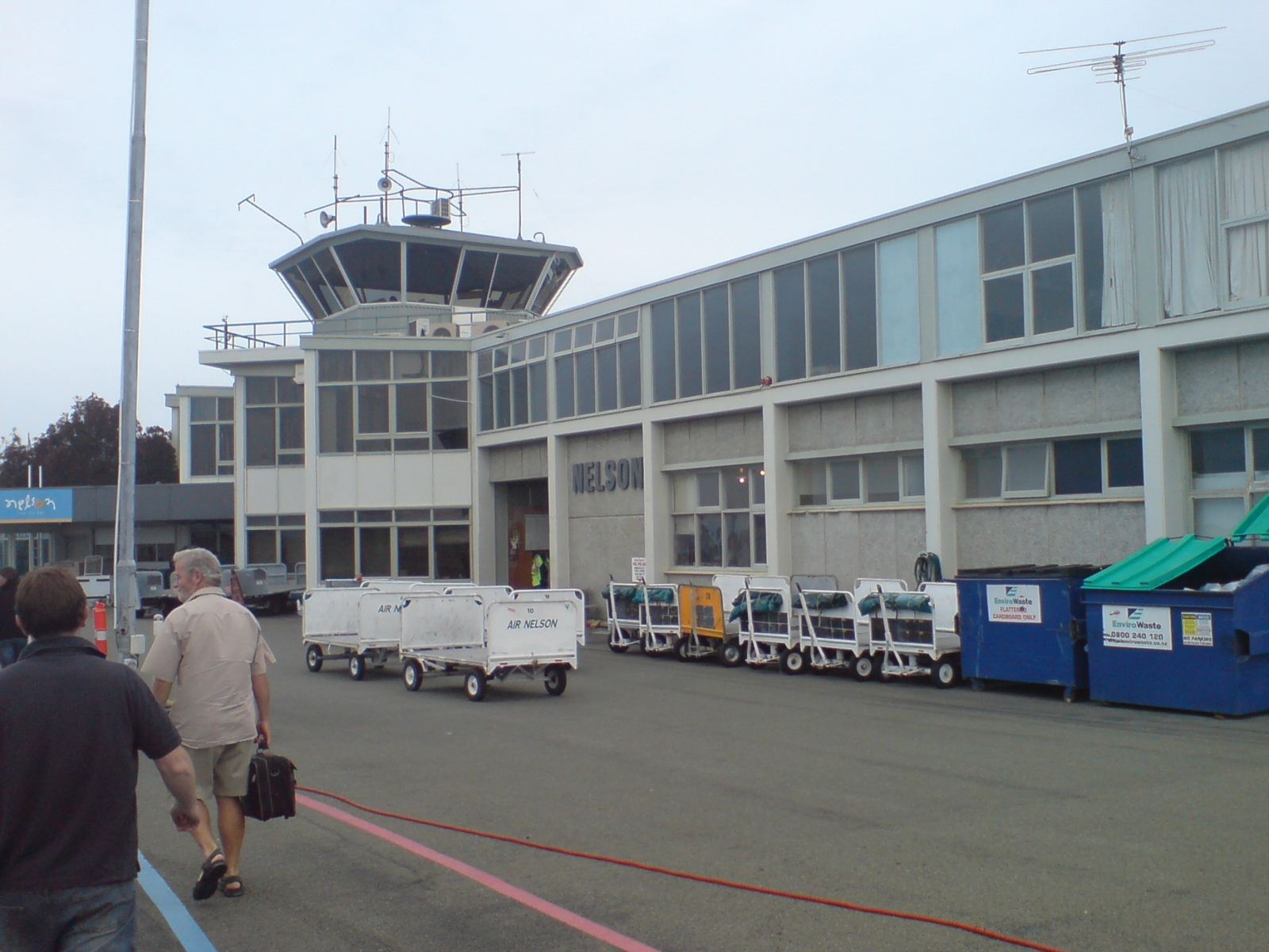 Nelson Airport in New Zealand. Not that sunny on that day, even though Nelson markets itself as the sunniest town in the country.